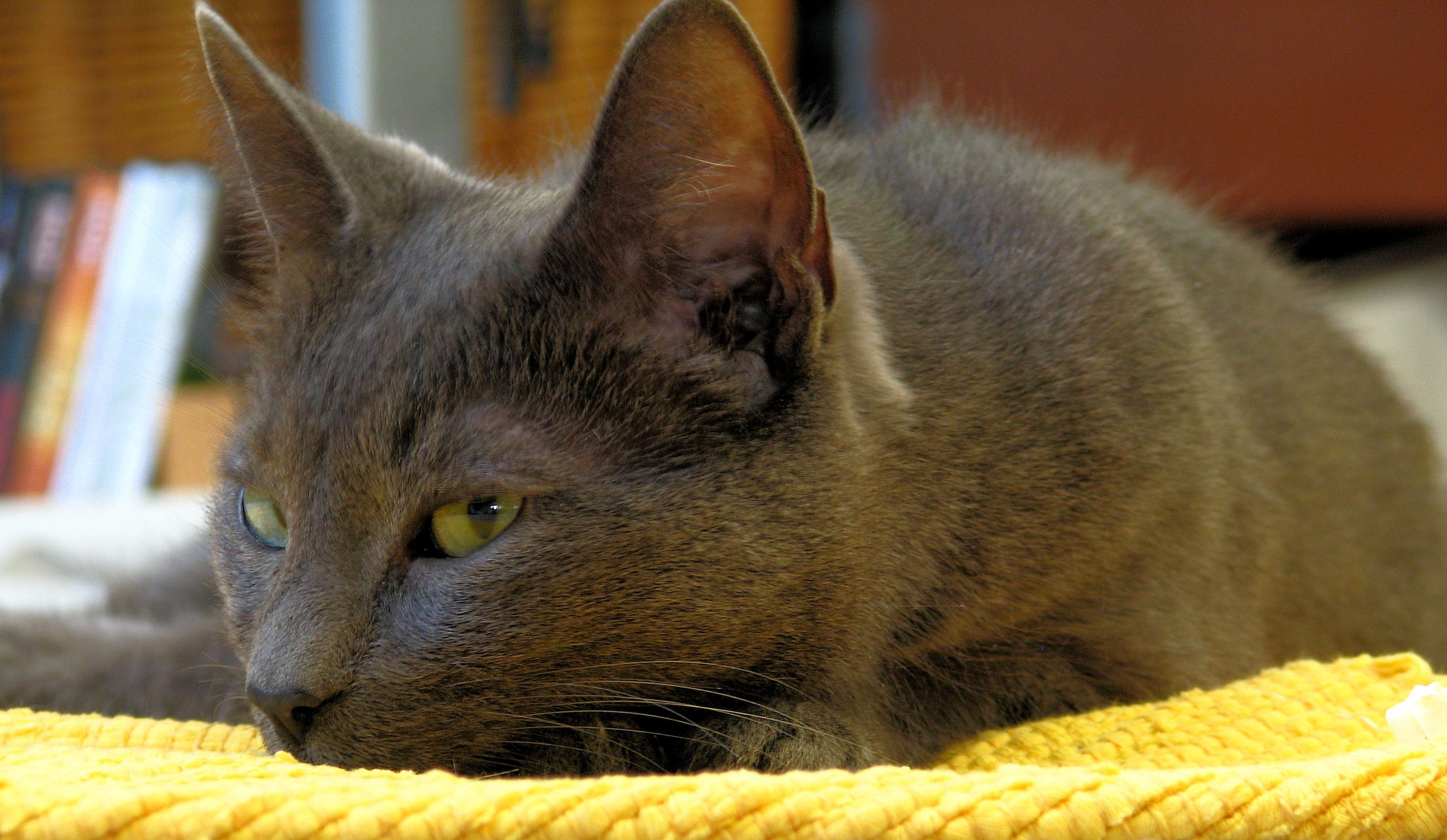 Korat